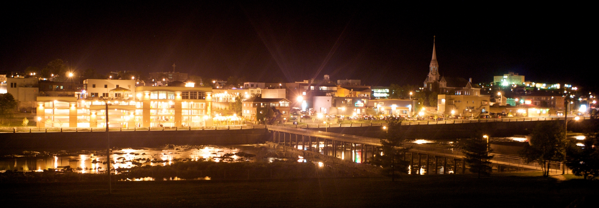 Night view of the downtown of Alma, Quebec